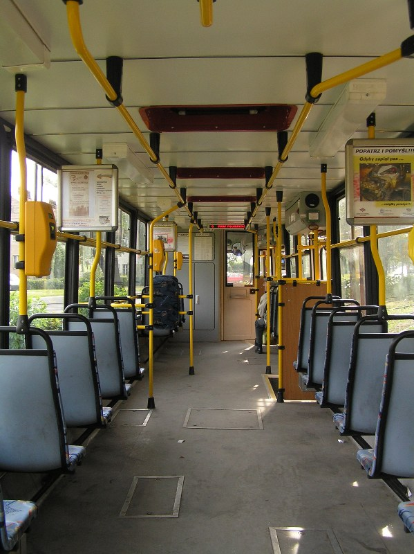 Interior of modernized Konstal 105Na (105NWr) tram in Wrocław, Poland.